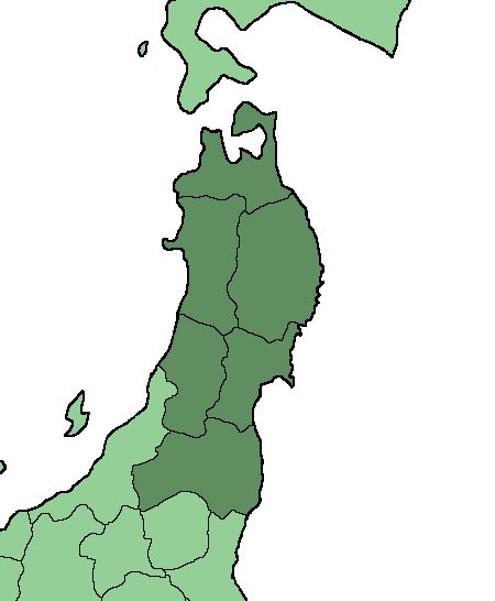 Tōhoku Region, Japan